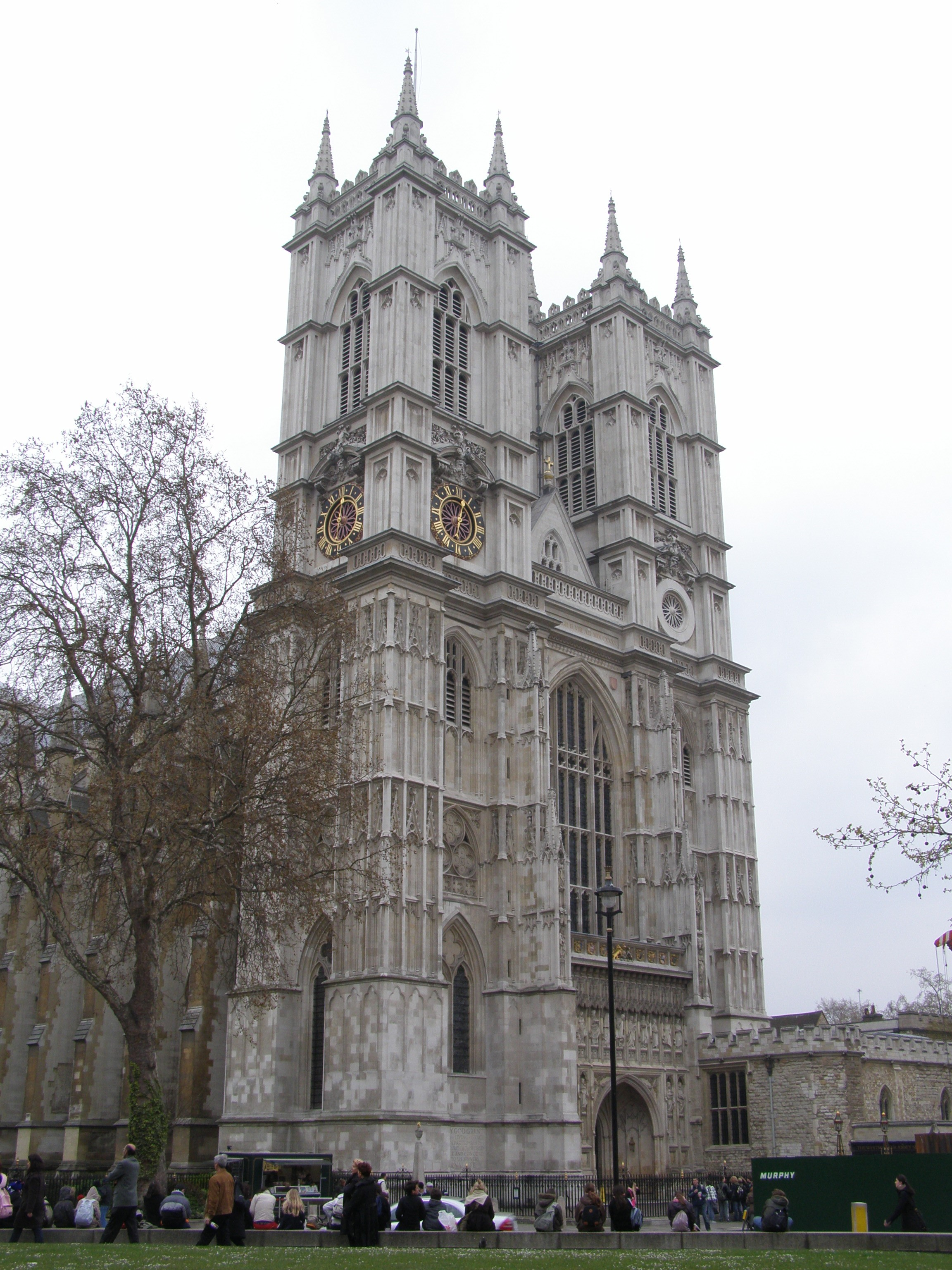 Westminster abbey